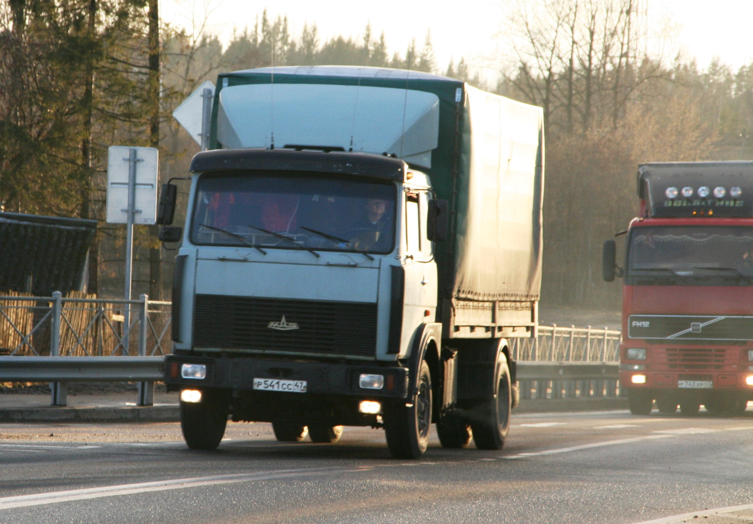 MAZ-5336 turck on A114-road, 130km northeast of St. Petersburg in direction to Tichwin